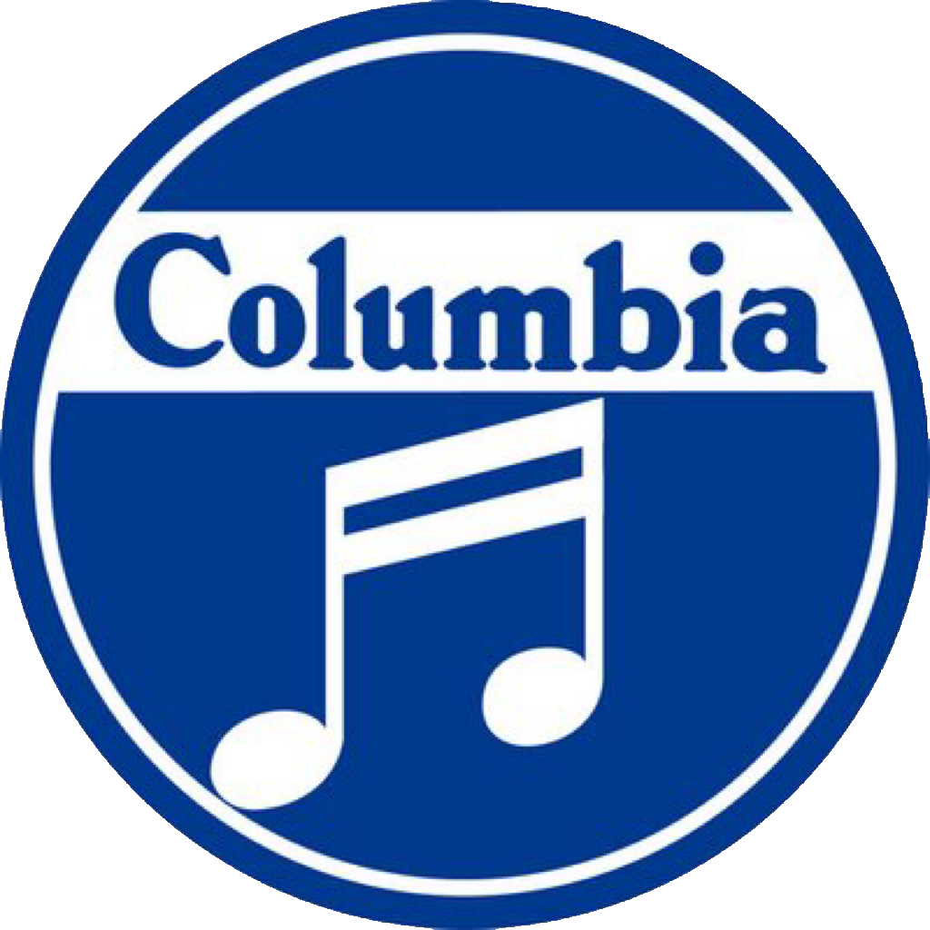 Logo of NIPPON COLUMBIA